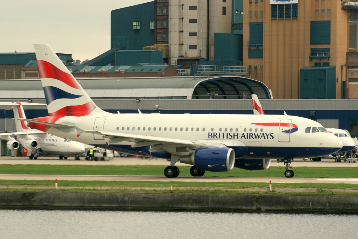 British Airways operates two Airbus A318s on trans-Atlantic services between London City Airport and John F. Kennedy International Airport. One of them is shown here taxiing at London City.